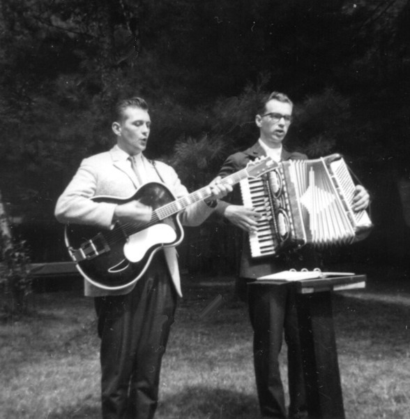 Picture of Kjell&Odd performing in USA 1961. Norsk (bokmål): Bilde tatt sommeren 1961 i USA.